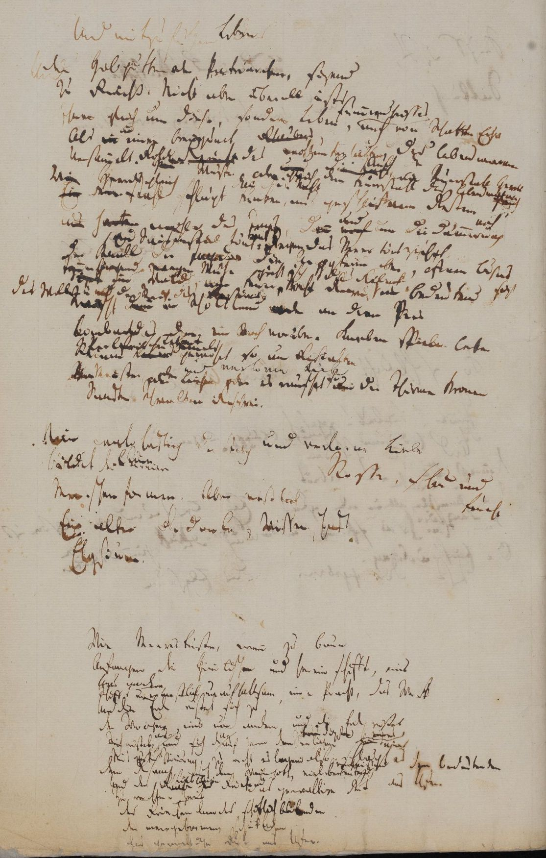 Original manuscript Wie Meeresküsten ... by Friedrich Hölderlin, contained in Homburger Folioheft